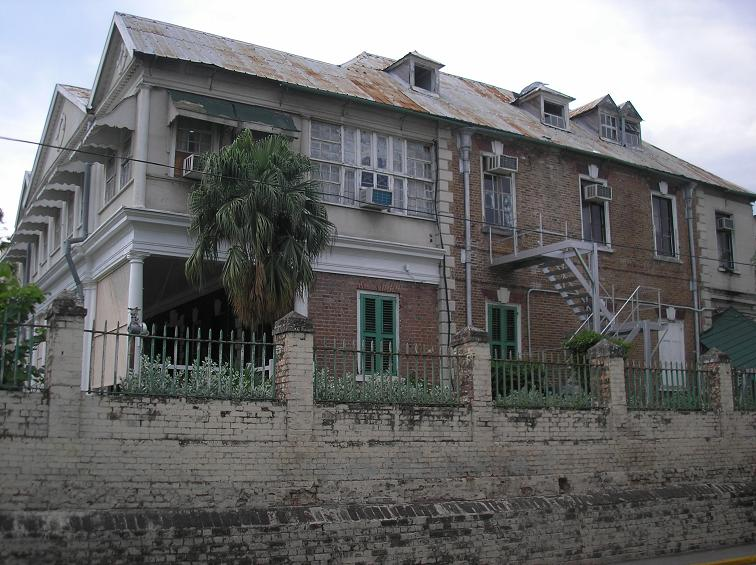 photo of Hibbert House, headquarters of the Jamaica National Heritage Trust.